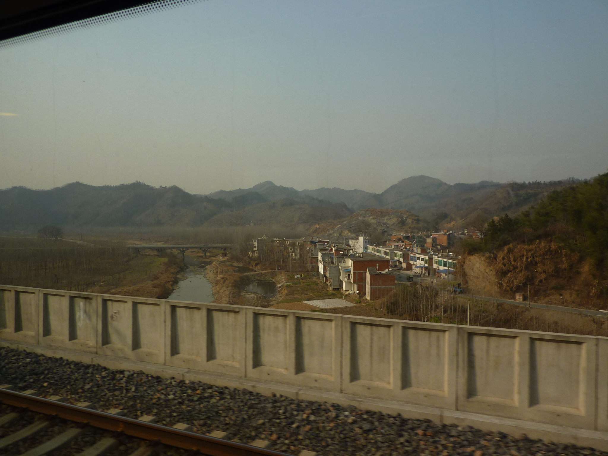 Landscape around the Hefei-Wuhan railway, just east of (a minute or two before) the Jinzhai Railway Station.